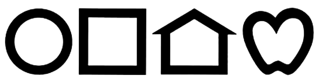 four Lea sample symbols